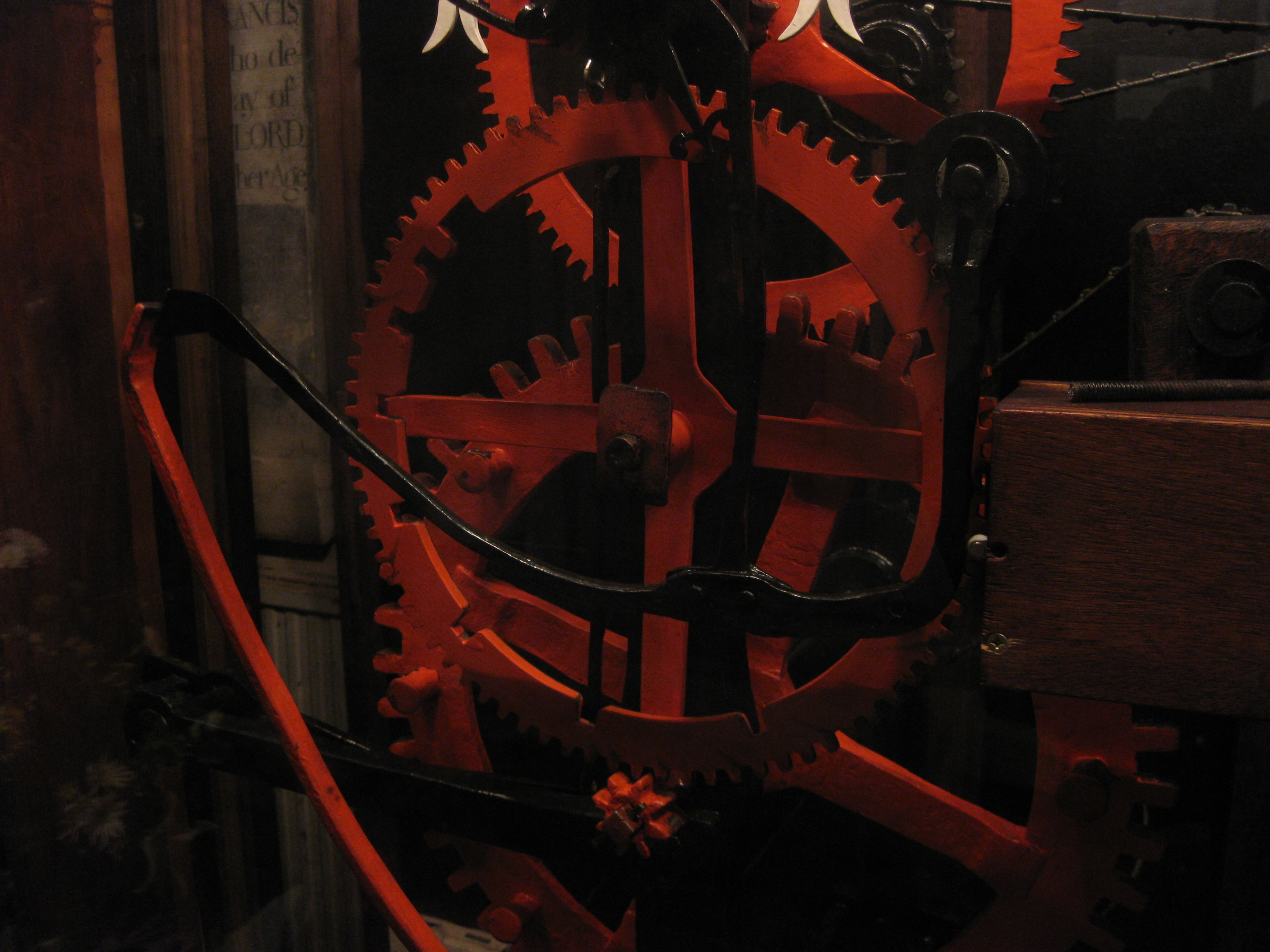 This photo shows the count wheel and locking mechanism of the striking train of the Castle Combe Clock. Photo taken on 17/1/2011 by myself. Taken through a glass pane, thus the not so great quality. Christian Dannemann (talk) 09:17, 18 January 2011 (UTC) This photo shows the count wheel and locking mechanism of the striking train of the Castle Combe Clock. Photo taken on 17/1/2011 by myself. Taken through a glass pane, thus the not so great quality. Christian Dannemann (talk) 09:17, 18 January 2011 (UTC)